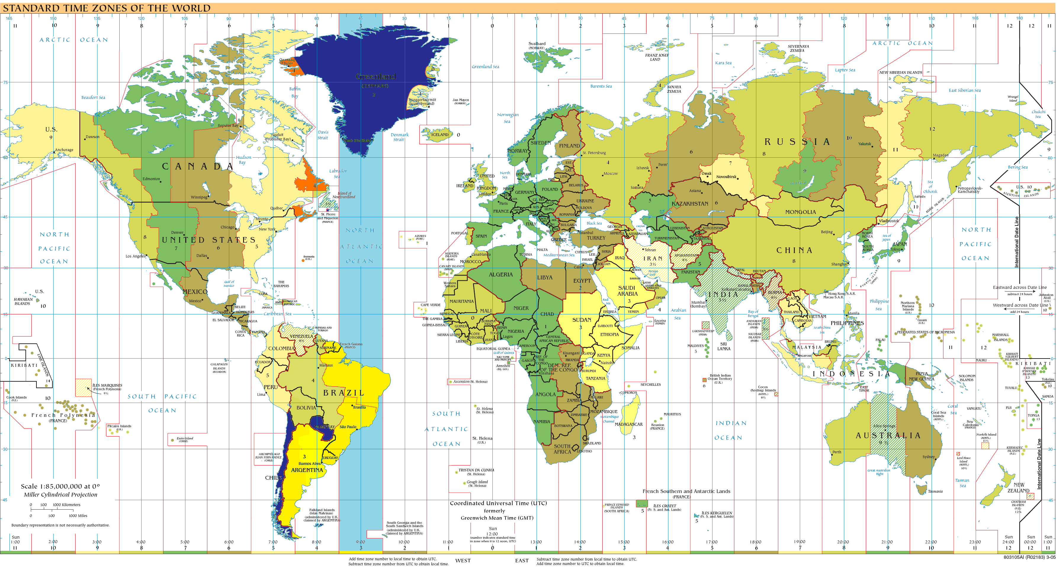 Based on Timeszones2008.png highlighting UTC-3 Dark Blue - UTC-3 during Northern Winter/Southern Summer Orange - UTC-3 during Northern Summer/Southern Winter Yellow - UTC-3 all year round Light Blue - UTC-3 Sea Areas